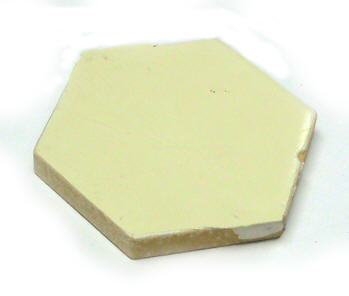 Example of cream colored Uranium containing bathroom tile.